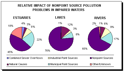 Nonpoint source pollutants have increased and accounts for more than 50% of the pollution in our nation's waters.